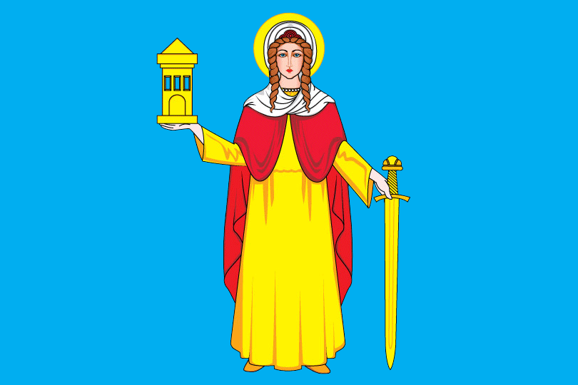 Flag of Vlasiha, Moscow Region, Russia